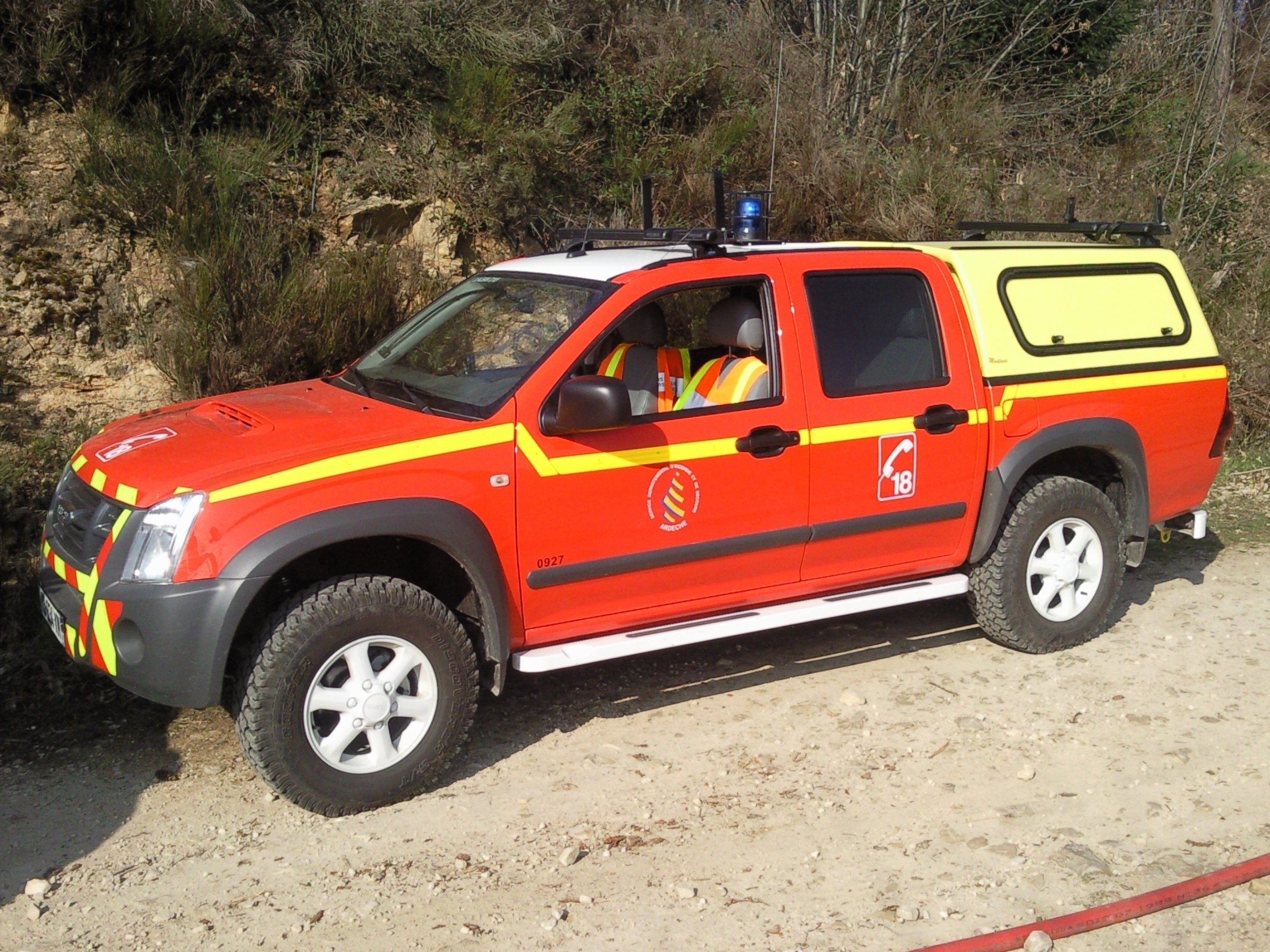 Isuzu D-MAX used bu Firemen in South of France.